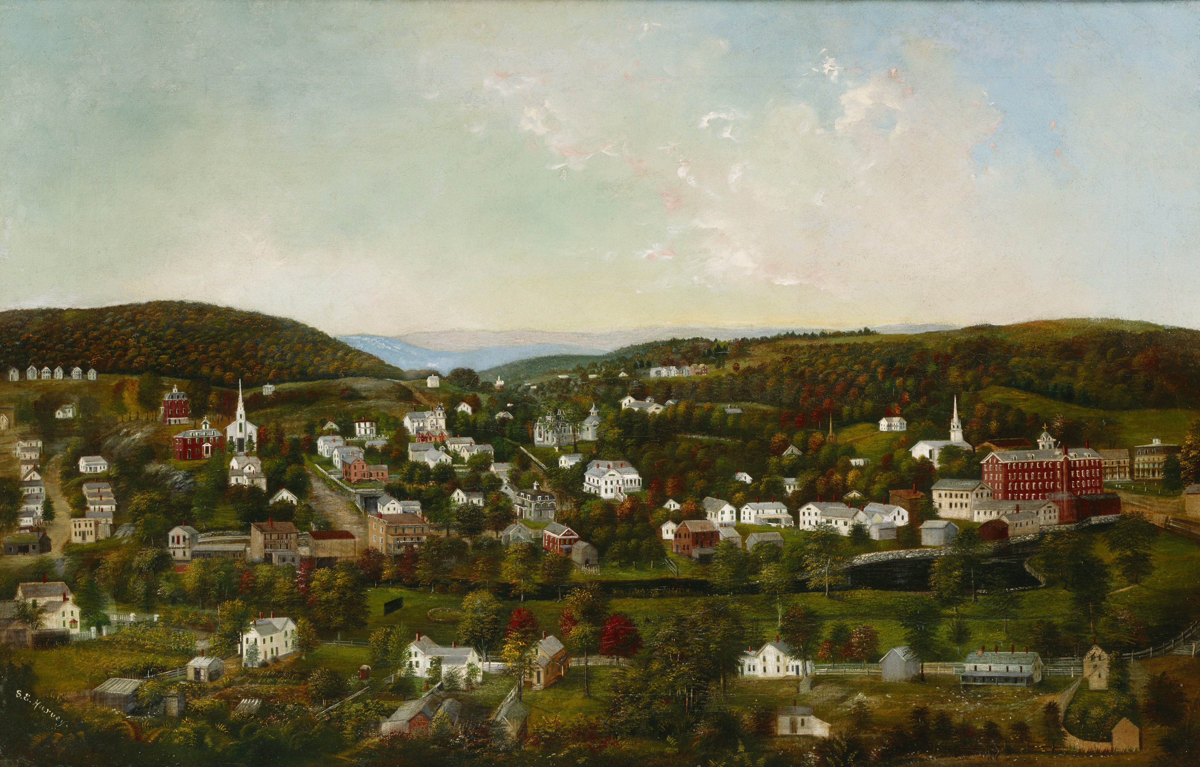 Sarah E. Harvey, American, 1834–1924 Winsted, Connecticut, ca. 1877 Oil on canvas 45.5 x 71.1 cm (17 15/16 x 28 in.) frame: 55.9 × 81.9 cm (22 × 32 1/4 in.) Gift of Edward Duff Balken, Class of 1897 y1958-100 Although Sarah Harvey claimed never to have received instruction in painting, she completed an estimated one thousand pictures over a career of more than six decades, all but one hundred given away to family and friends. Her subjects ranged widely, from still lifes to locations in Europe and the tropics based on print and photographic sources, but depictions of the local topography surrounding her Winsted, Connecticut, home were likely produced at least in part through direct observation. In this view of the thriving mill town at the confluence of the Mad and Still Rivers, an idealized quietude prevails. Shown devoid of human activity, the scene is rendered with such precision that individual buildings — some probably containing the paintings Harvey distributed locally as gifts — are clearly identifiable, including St. Joseph’s Church and Monastery at left and, most prominently, at far right, the Strong Manufacturing Company, makers of gilded coffin hardware.